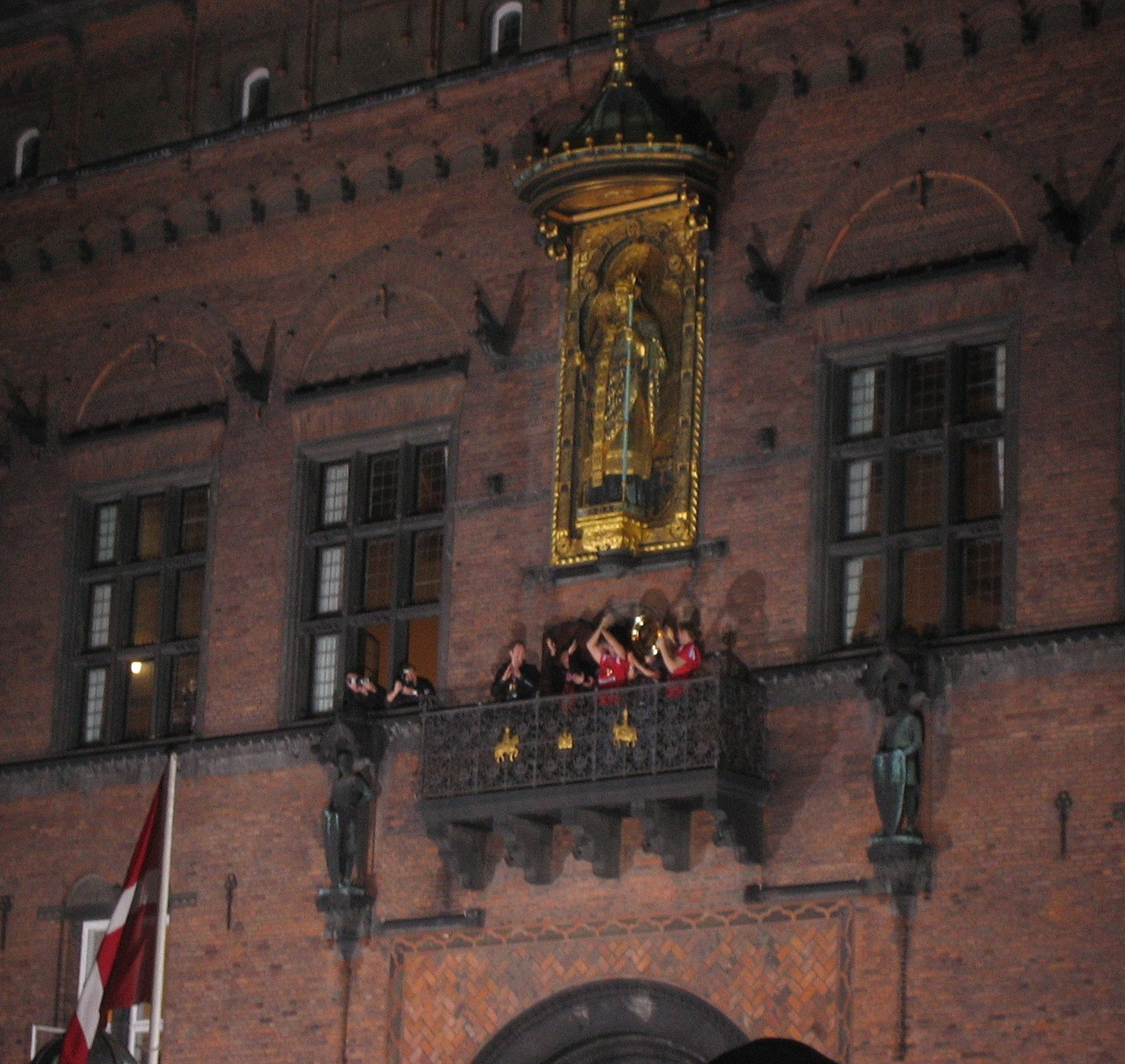 The danish national team in handball at Rådhuspladsen CPH